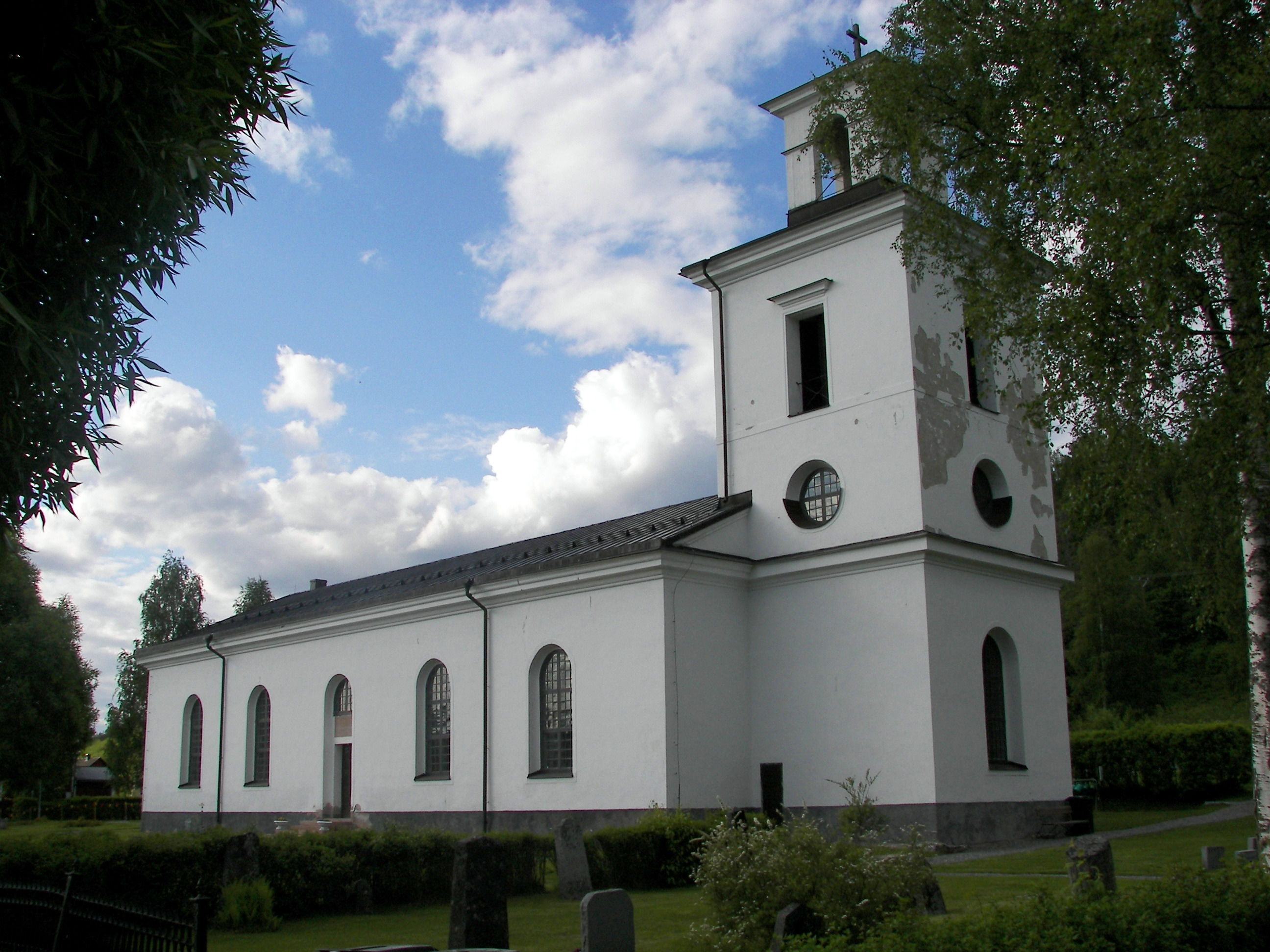 Resele church between Näsåker and Sollefteå, Sweden